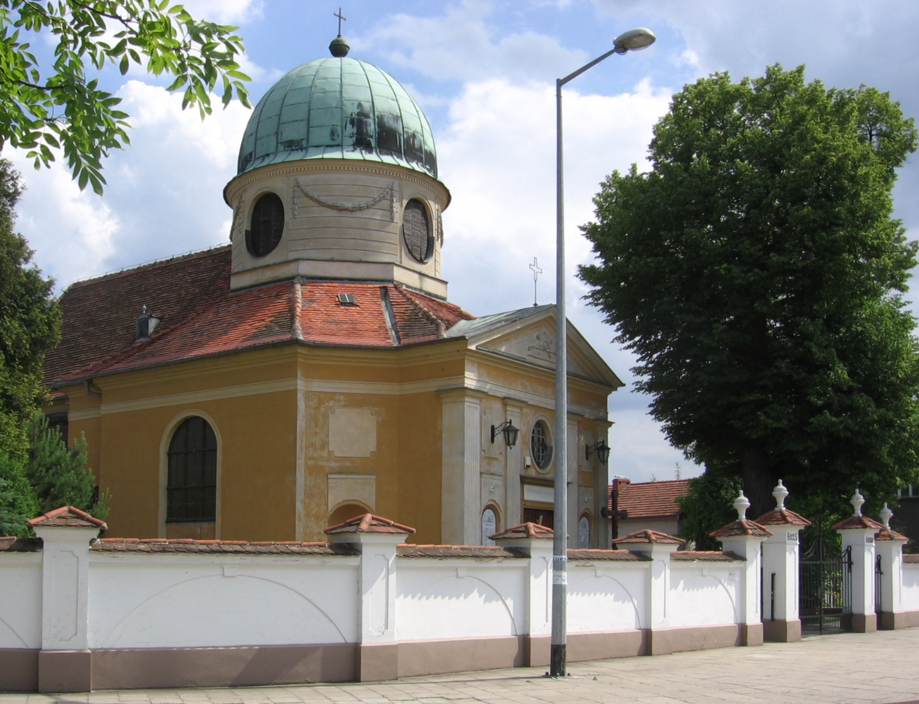 Wrocław, Poland - settlement Pracze Widawskie: St. Anna church